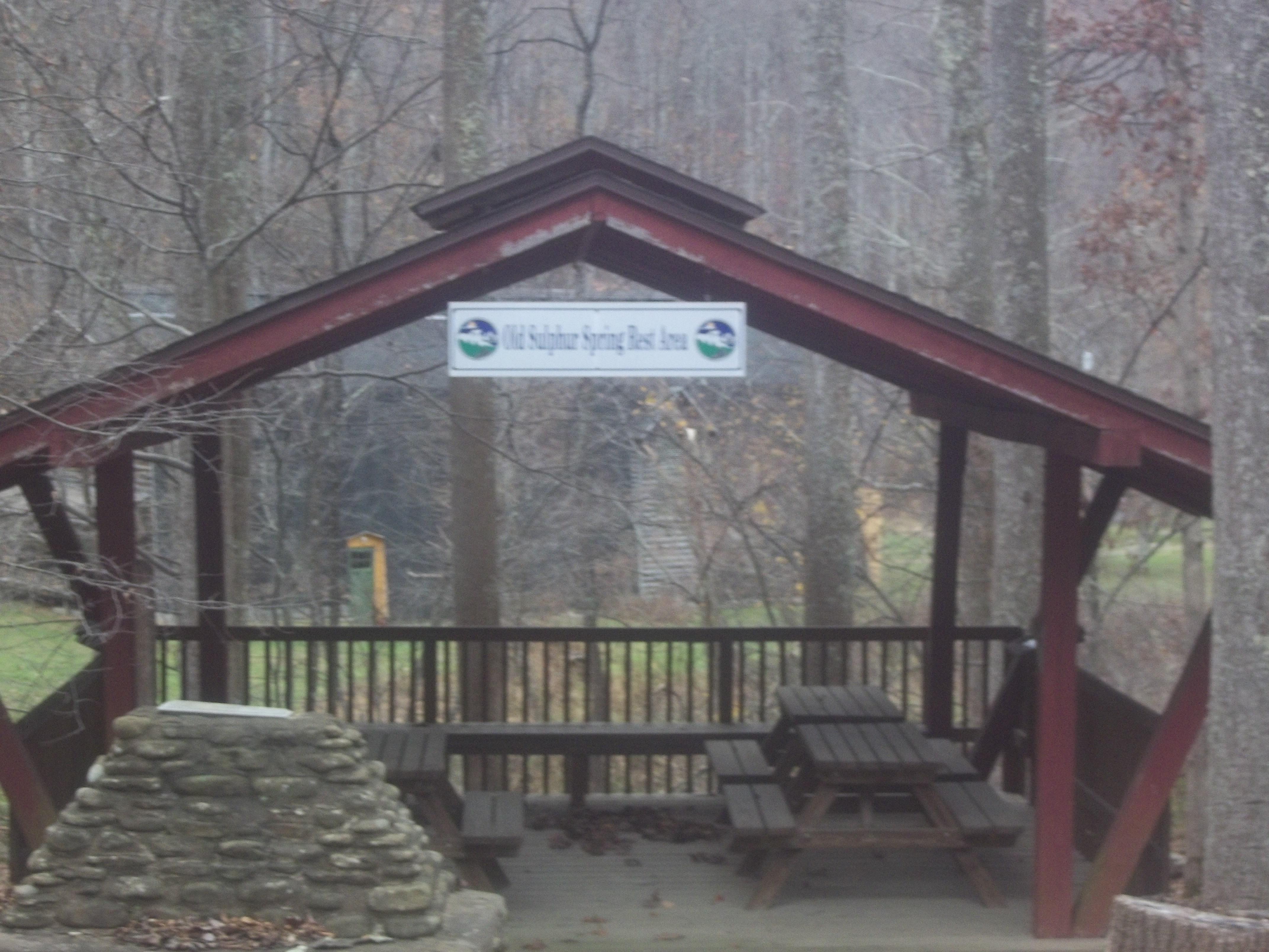 Old Sulfur Spring Rest Stop